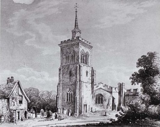 A View of St Mary's church in Baldock in Hertfordshire